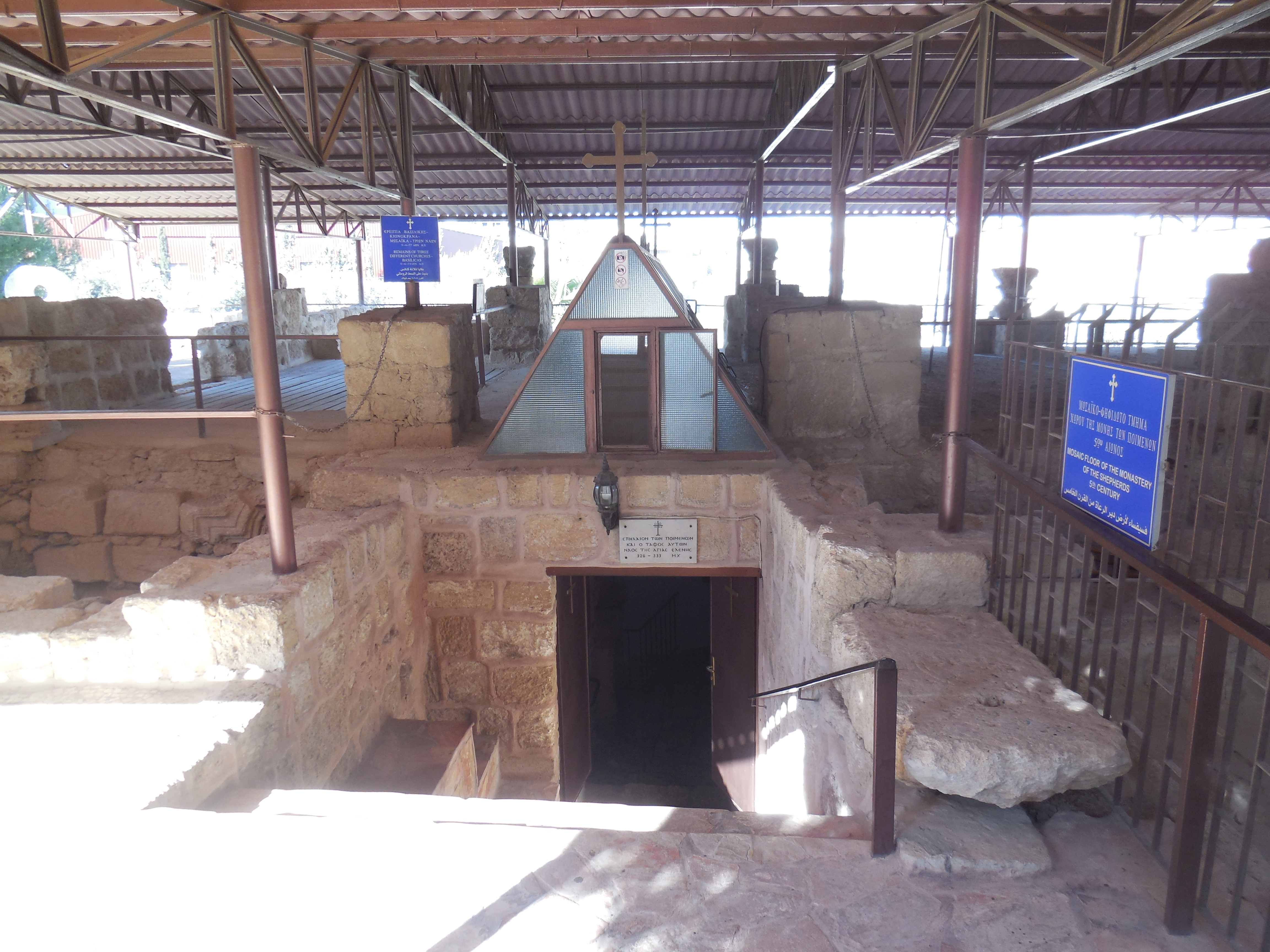 Crypt of Greek Orthodox Monastery of the Shepherds. Beit Sahour. Palestina